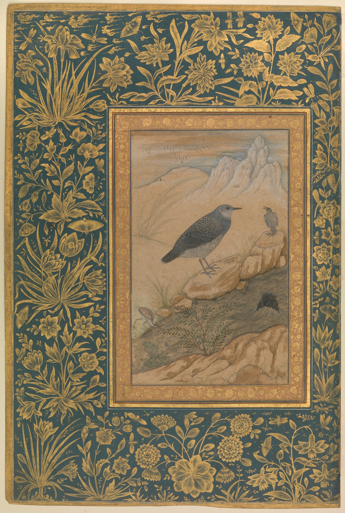 Cinclus pallasii, immature by Ustad Mansur